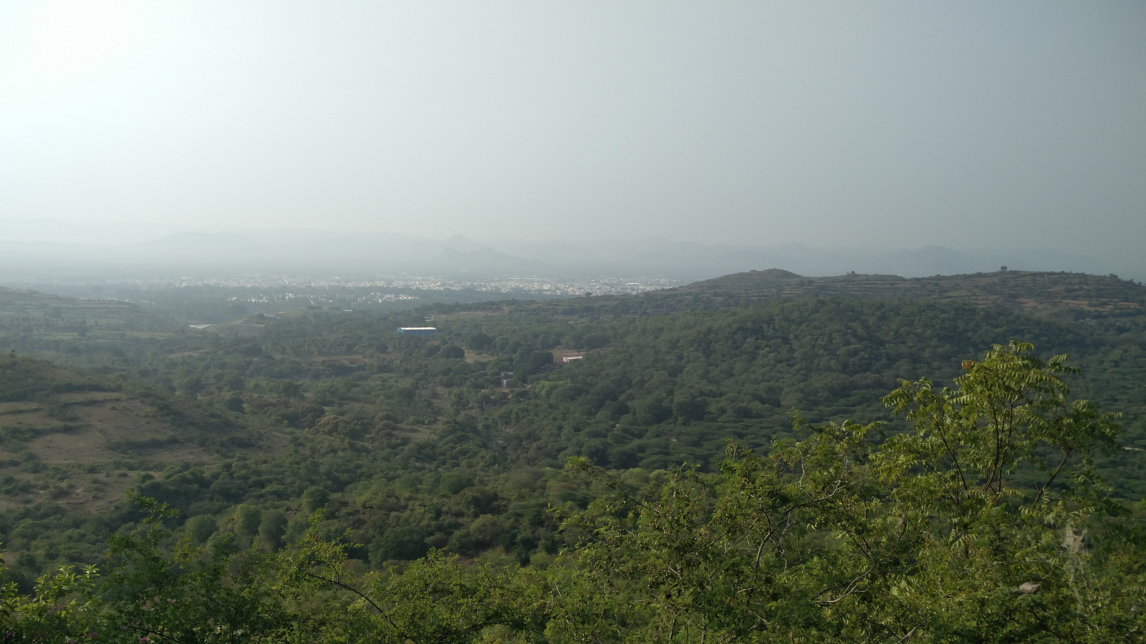 Vacation time